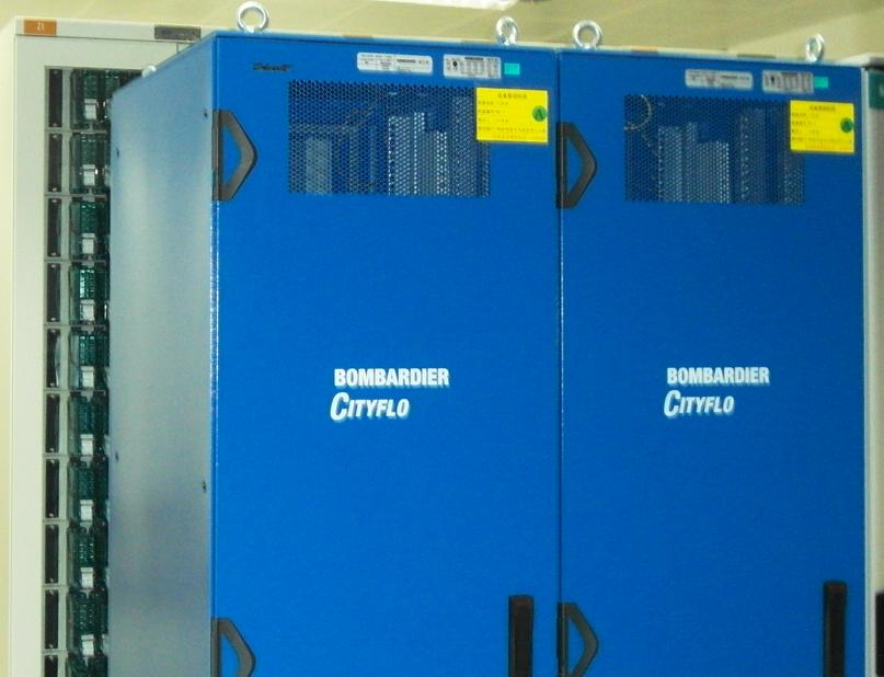 Wayside ATC equipment of Bombardier´s CITYFLO 650 CBTC system